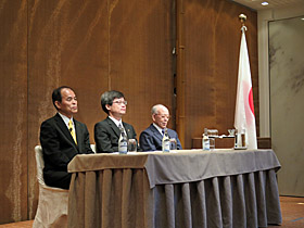 Isamu Akasaki, Director of the Research Center for Nitride Semiconductor Core Technologies, Meijo University, Hiroshi Amano, Director of Akasaki Research Center, Nagoya University, and Shuji Nakamura, Research Director for the Solid State Lighting and Energy Electronics Center, University of California, Santa Barbara, attended the press conference at the Grand Hôtel in Stockholm Municipality, Stockholm County on December 8, 2014.